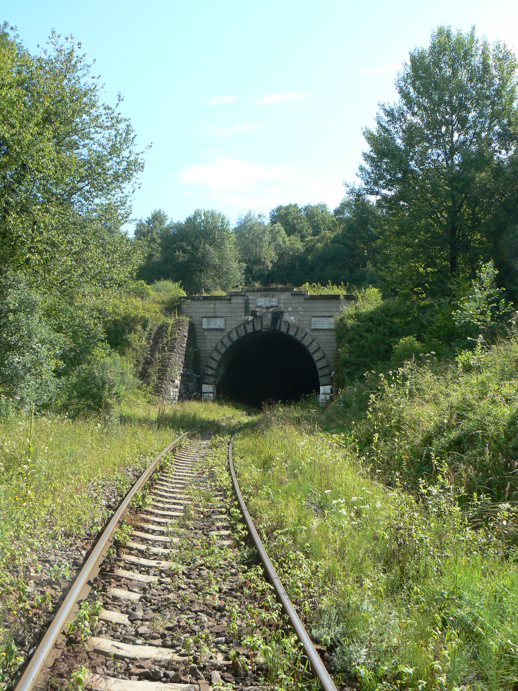 Lupkow train tunnel, railway line Medzilaborce - Sanok, Slovakia - Poland border.